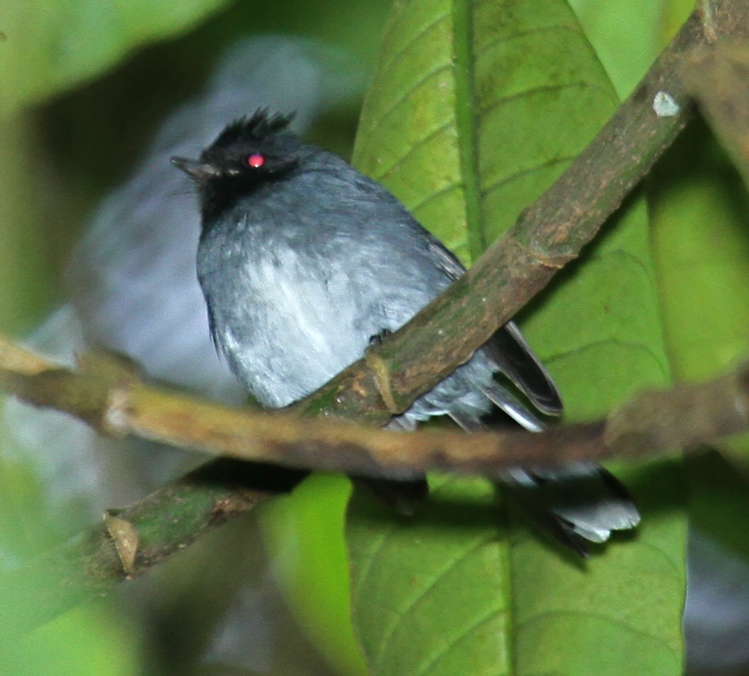 flash photo / Gatamayu Forest - Kenya